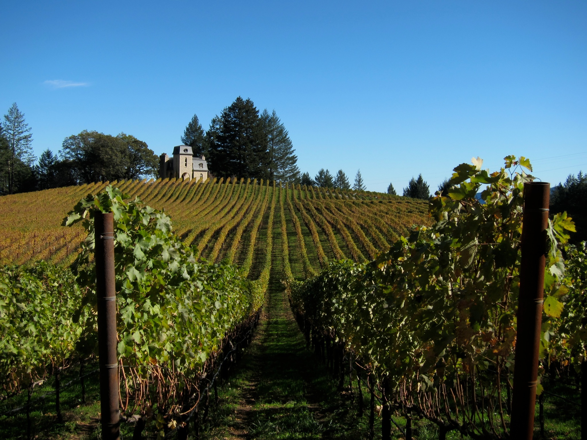 Grape vines and chateau, Napa Valley, California